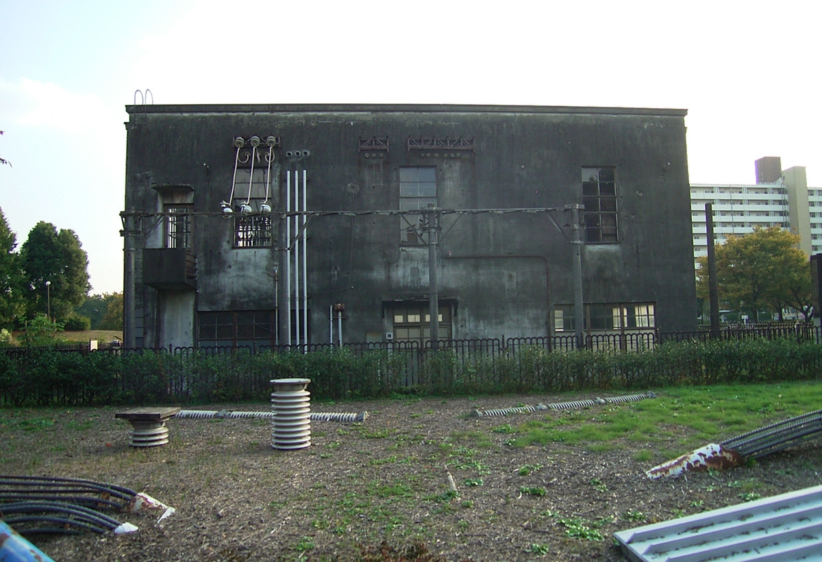 Hitachi plane Tachikawa transformer substation 旧日立航空機立川変電所 ｢東大和市指定史跡｣ 東京都東大和市桜が丘2-106-2